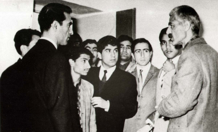 Jalal Al-e-Ahmad